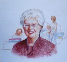 Alison Lyne painted this portrait as part of the 2002 honorees for part of the Kentucky Women Remembered ceremony in March 2002 for the Kentucky commission on Women's exhibit displayed in the Kentucky state capitol's West Wing